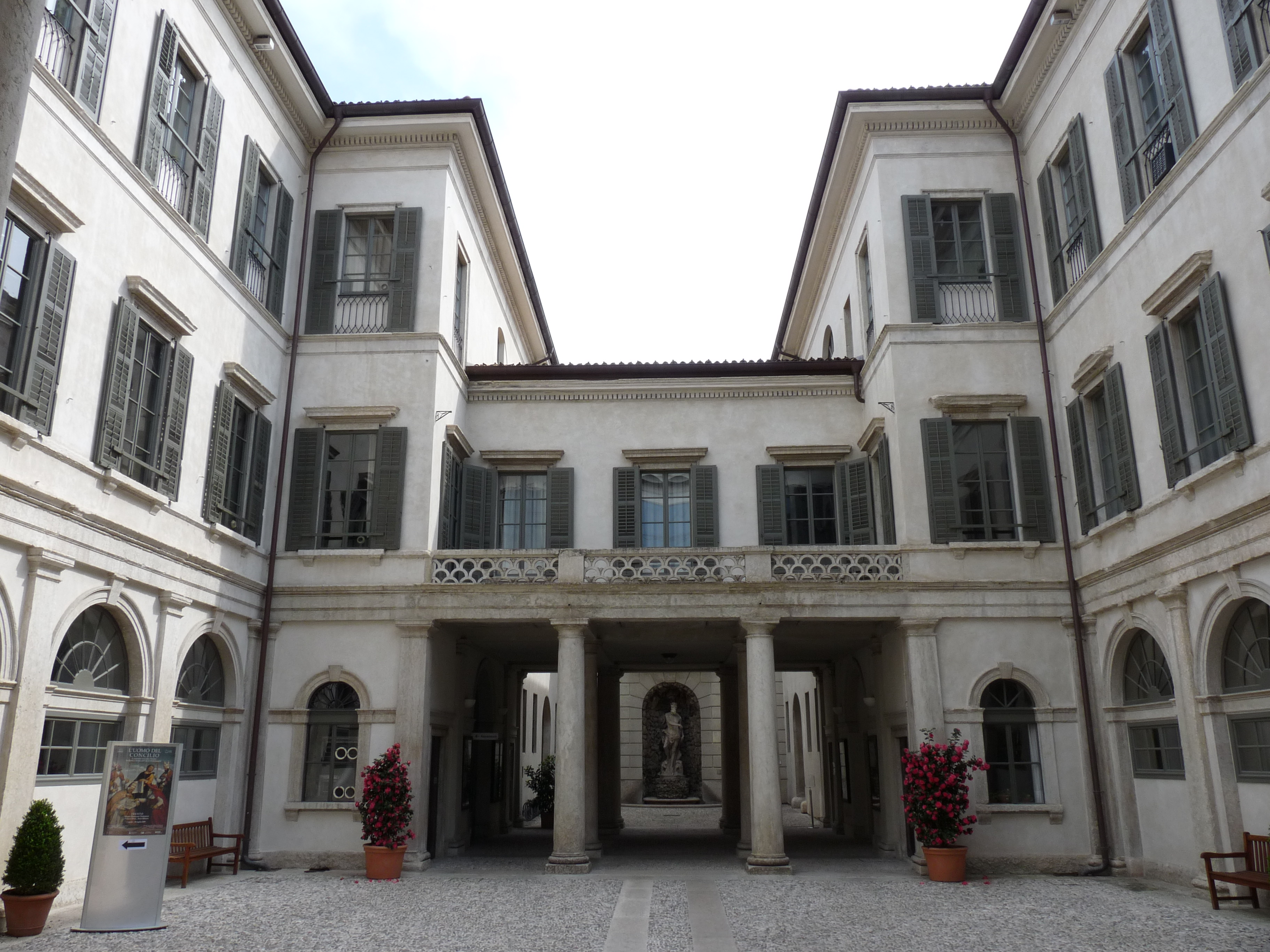 Trento (Italy): courtyard of Palazzo Thun.